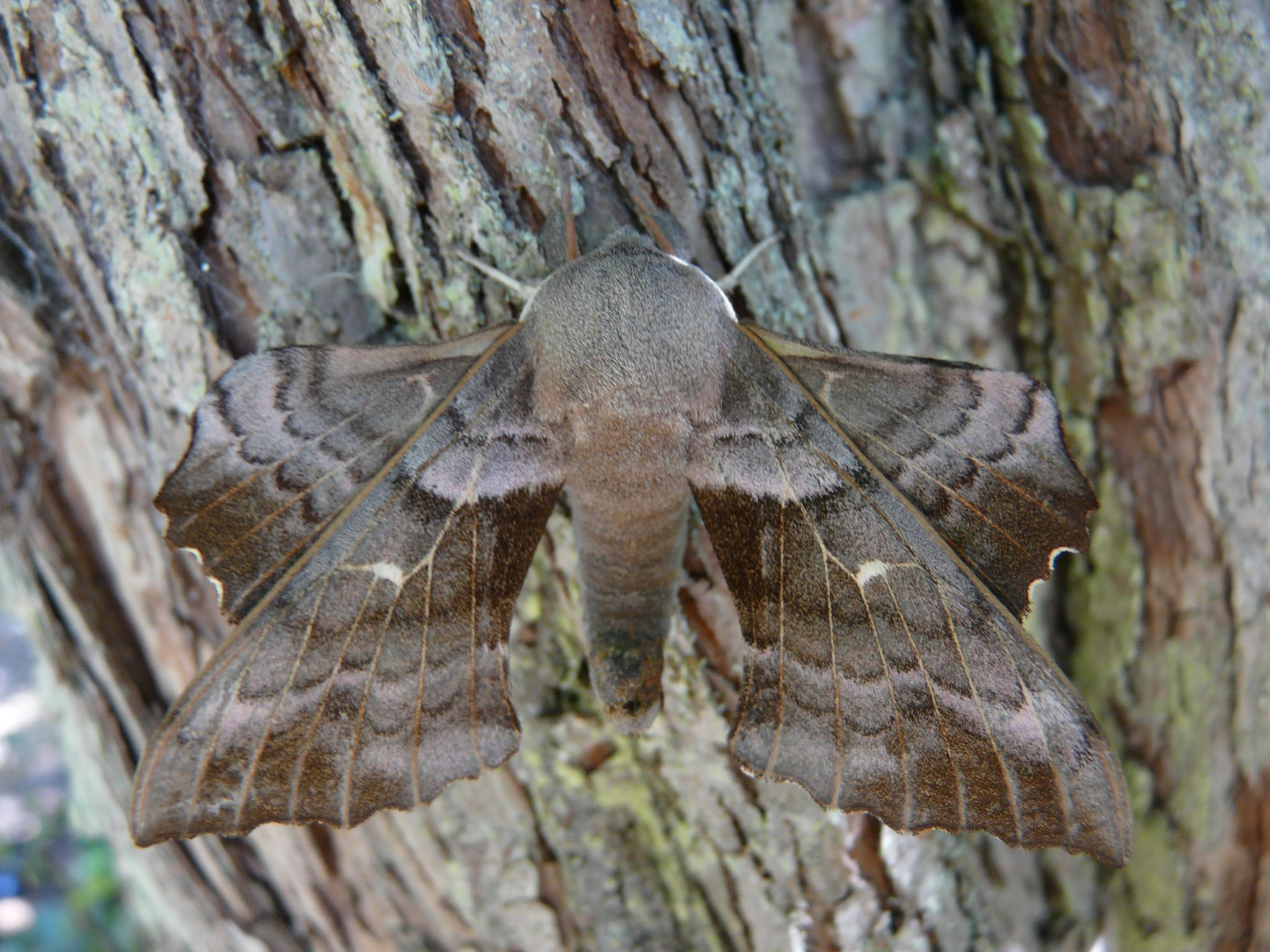 Moth trap releasee placed on a tree trunk